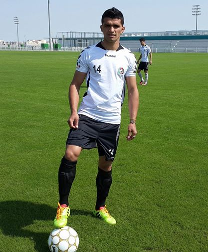 Farzad Ataie During Training in Qatar